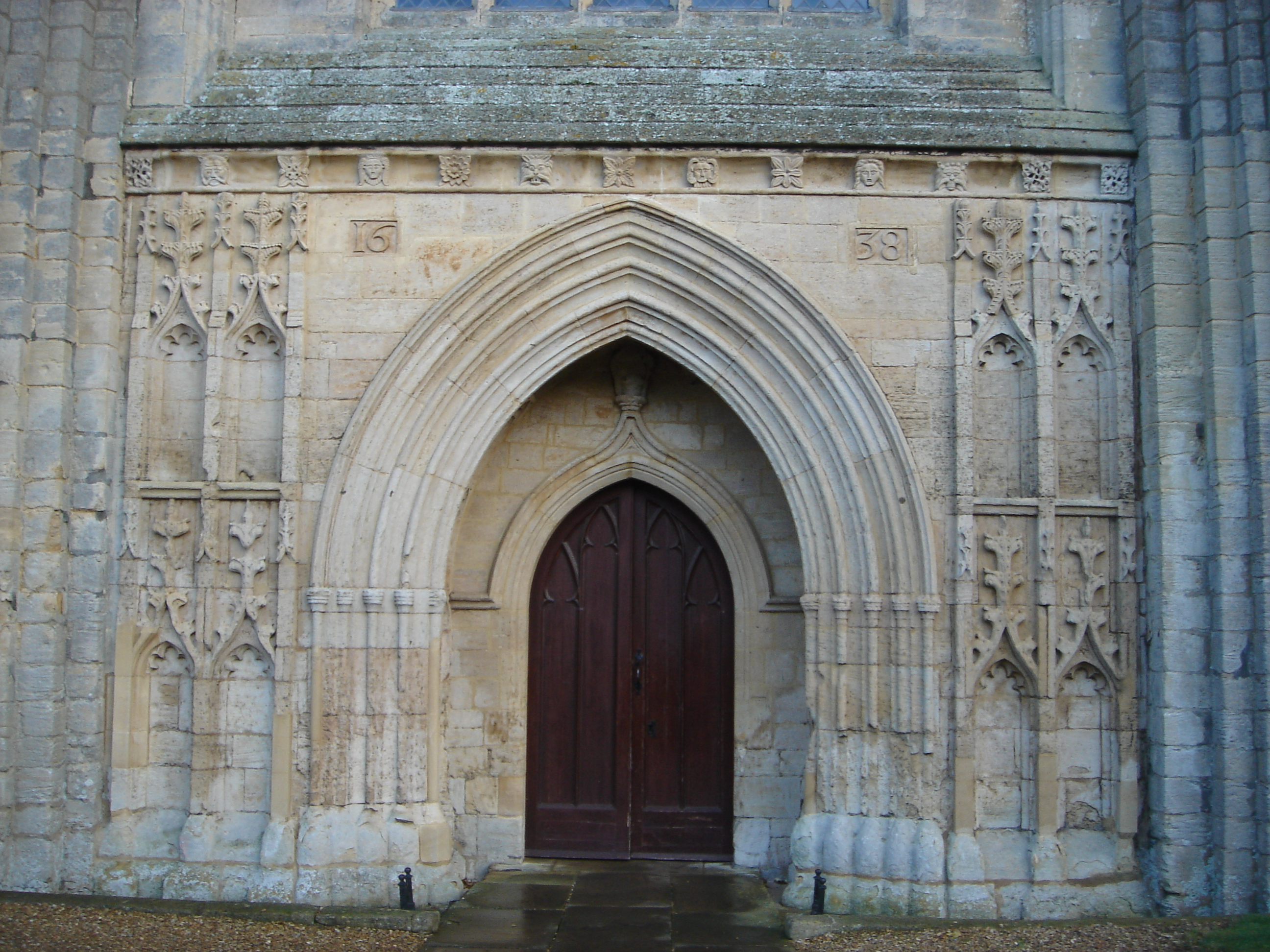 The central door of the Thorney Abbey's west front in Thorney, Cambridgeshire. This former Benedictine Abbey Church of St. Mary the Virgin and St. Botolph now serves the Parish of Thorney in the City of Peterborough.